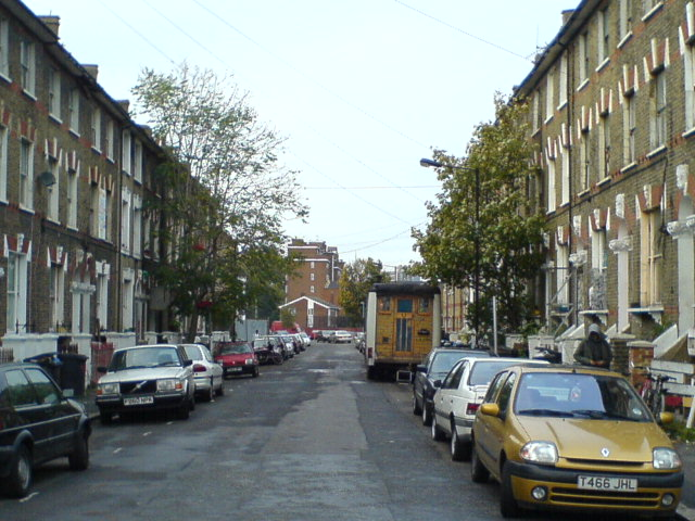 I just took this shot with my SE 750i phone to illustrate a new page. It is of St Agnes Place London SE11. author: Szczels 16:50, 5 November 2005 (UTC)